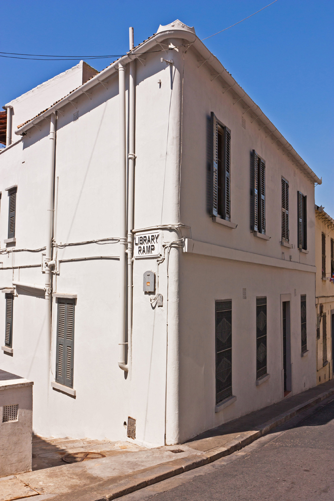 22 Prince Edward's Road in Gibraltar. Birth and death place of Gibraltarian philanthropist, John Mackintosh.